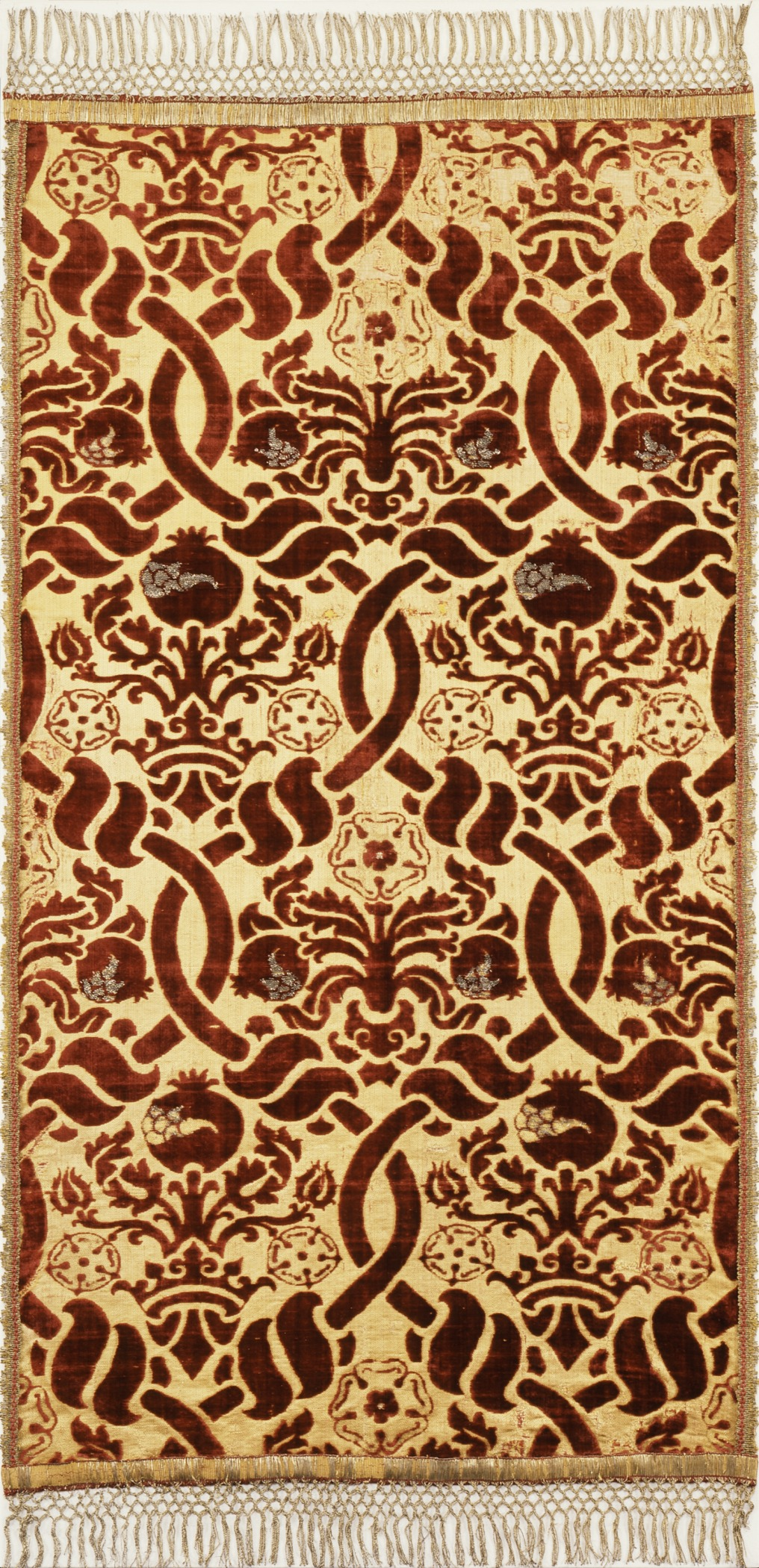 Italy, Genoa, circa 1500-1525 Textiles; textile lengths Red silk velvet pattern with gold threads on white satin ground 41 1/2 x 22 in. (105.41 x 55.88 cm) Mr. and Mrs. Allan C. Balch Collection (M.45.3.192) Costume and Textiles